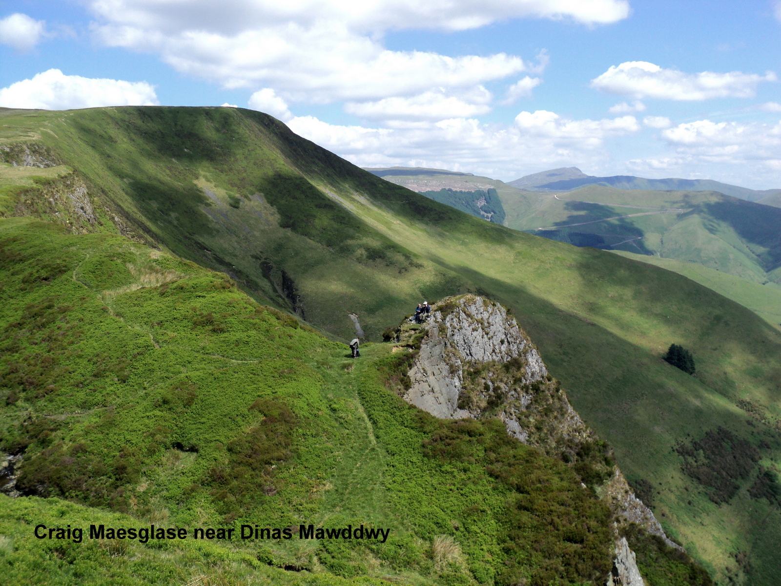 Day 14 - Craig Maesglase with Arans in distance